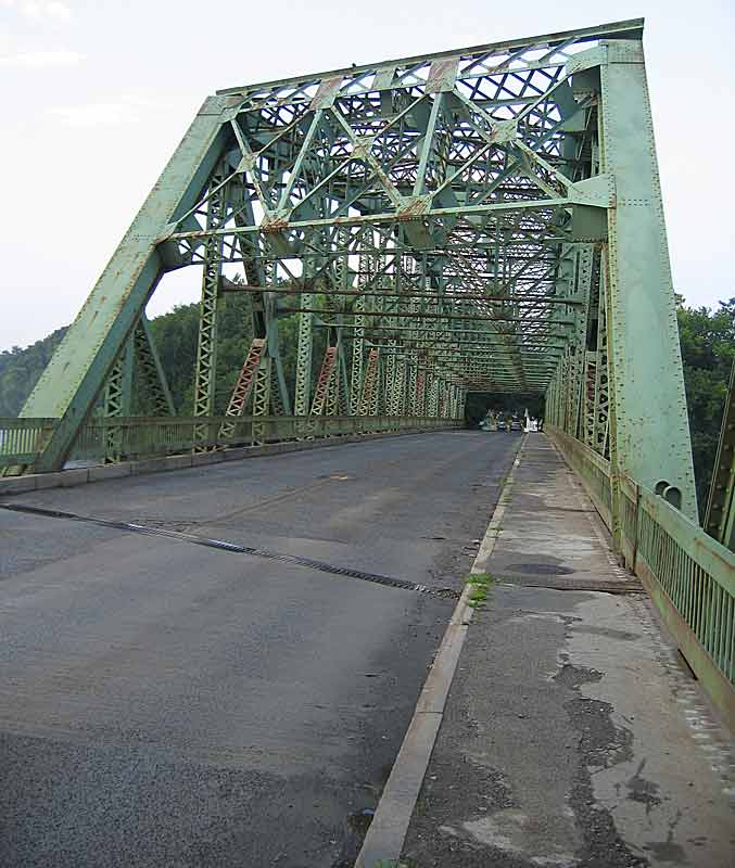 Montague (Massachusetts) City Road Bridge between spans facing northeast. Looks like a steel truss bridge from here.